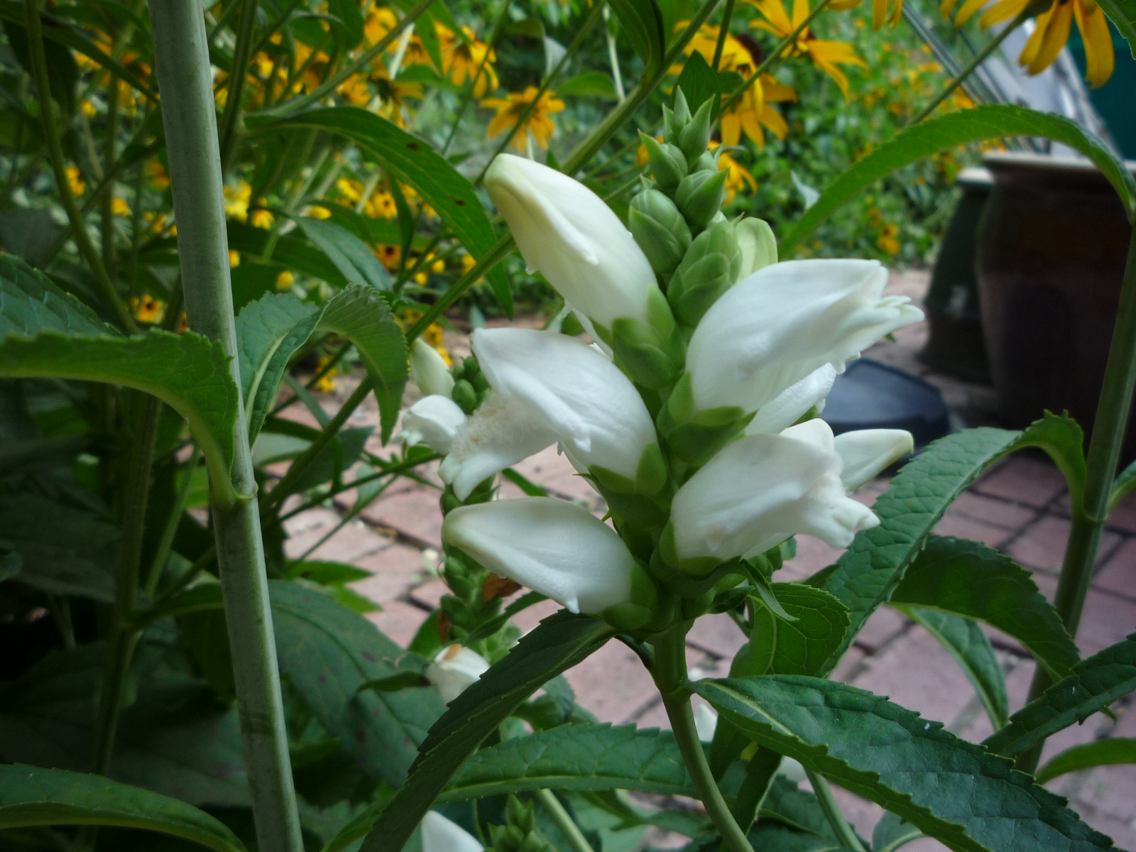 Chelone glabra flowers from a plant in cultivation